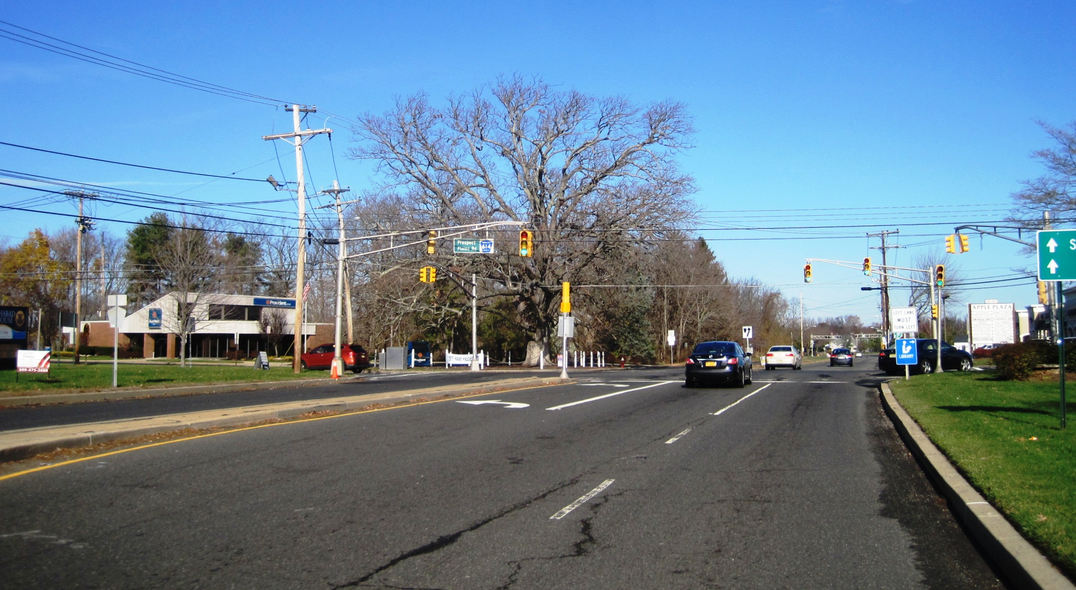 Photo of Prospect Plains, New Jersey, an unincorporated community within Monroe Township, Middlesex County. Photo taken along northbound Applegarth Road (County Route 619) at Prospect Plains Road (CR 614). The Monroe Oak (white oak or quercus alba) is shown in the opposite corner of the intersection in the background.